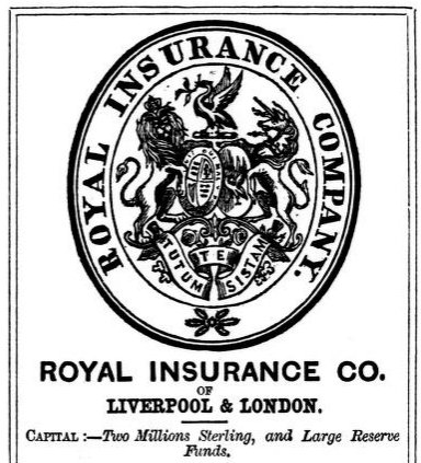 Page grab from the book available at as shown. Logo for the Royal Insurance Co. in Montreal, Canada.